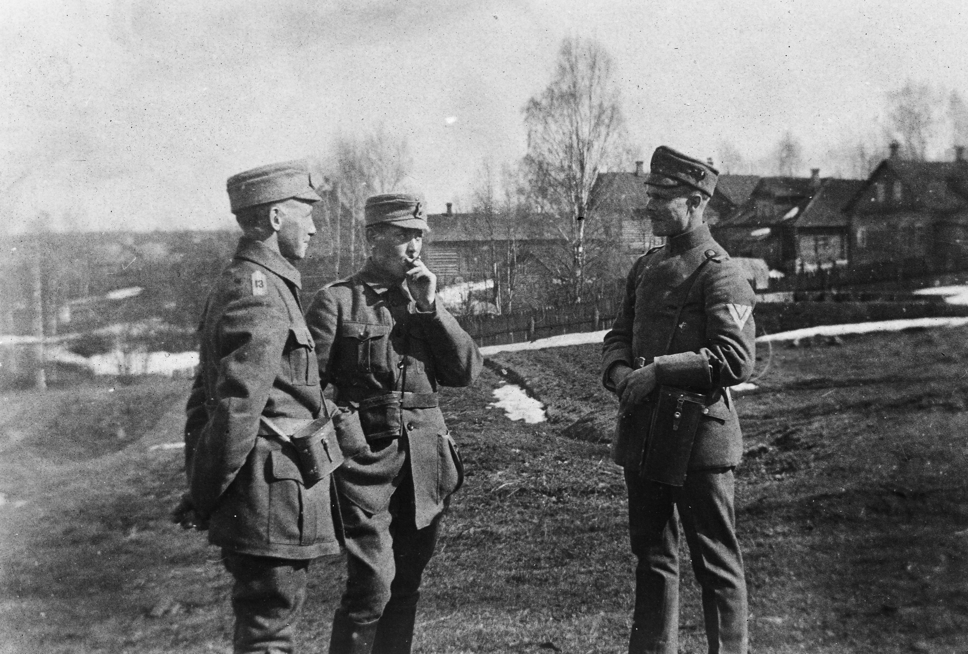 1918 Finnish Civil War White Guard soldiers in Raivola.